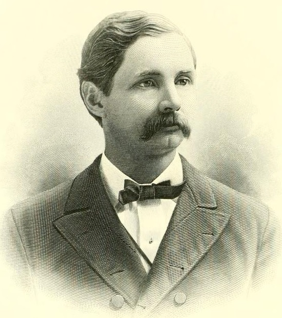 James P. Walker (Missouri Congressman)